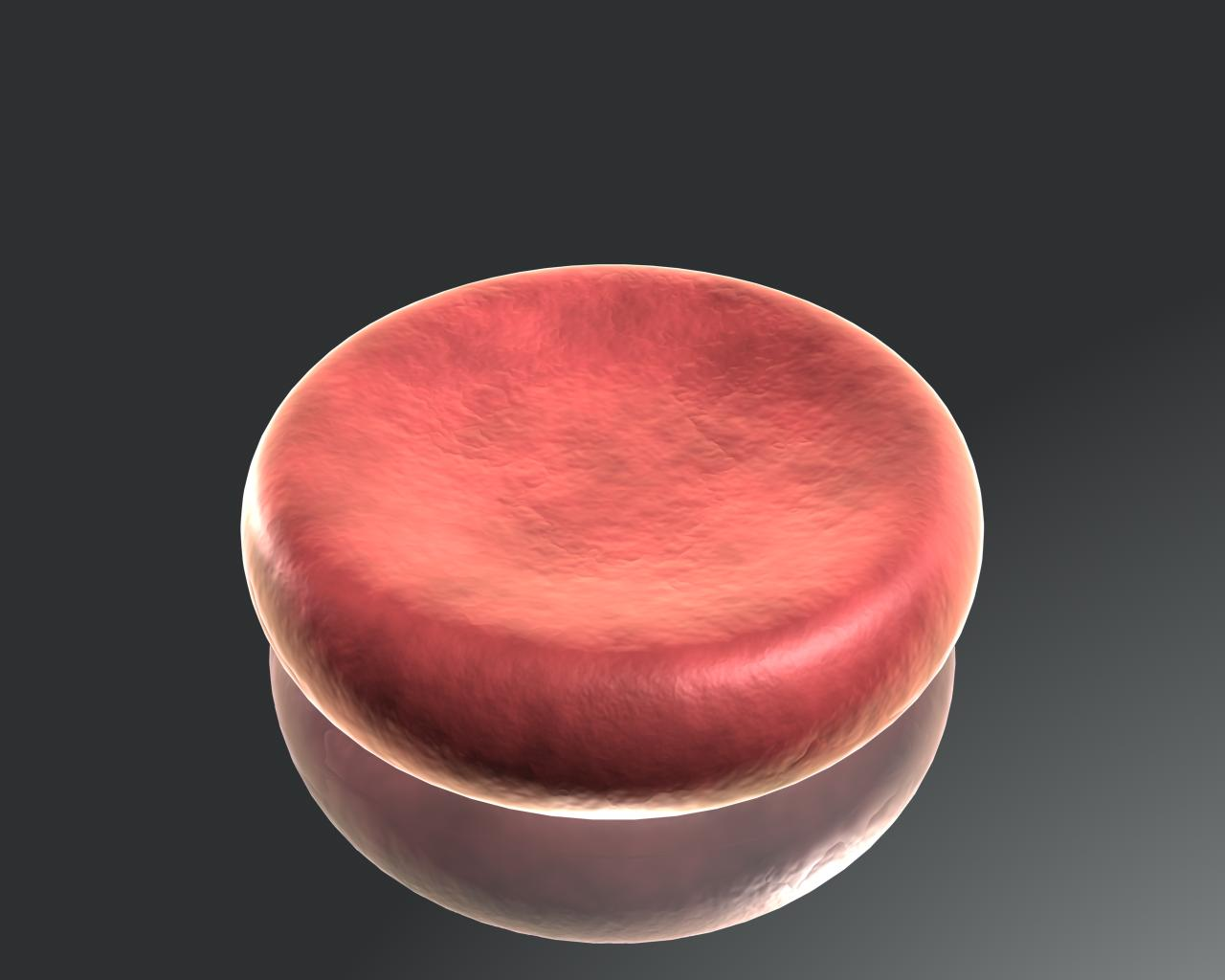 A computer graphics depiction of a human red blood cell on a glass surface.